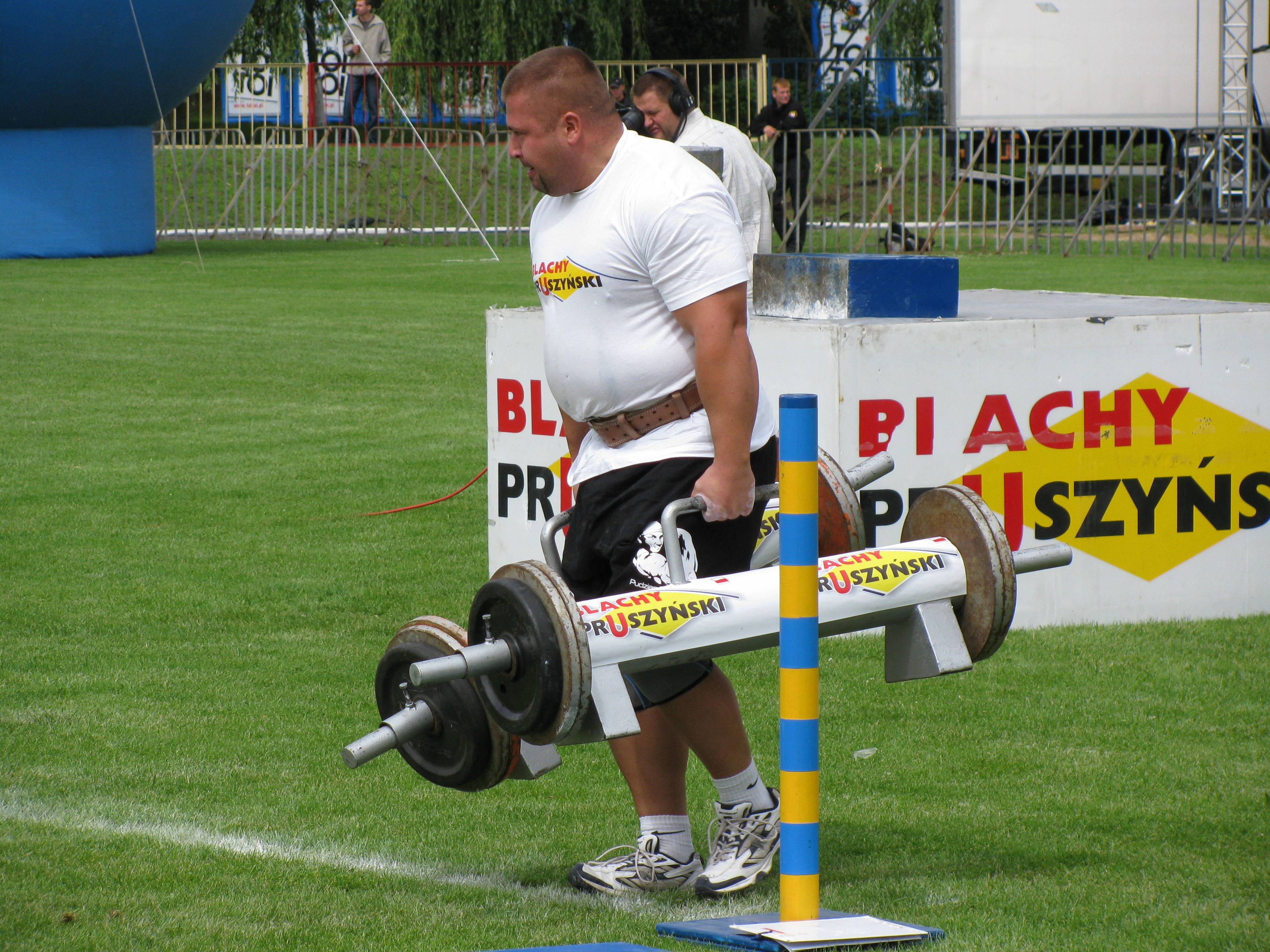 Strongmen event: the Farmer's Walk, long suitcases.